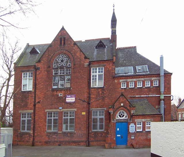 Charterhouse Boys School The school is closed and carries a "For Sale" sign. Photo taken from Wincolmlee. As of 2010 the school is used by the City council, which owns the building. The school was a mixed school - only the boys entrance is shown here, there was also a girls entrance.